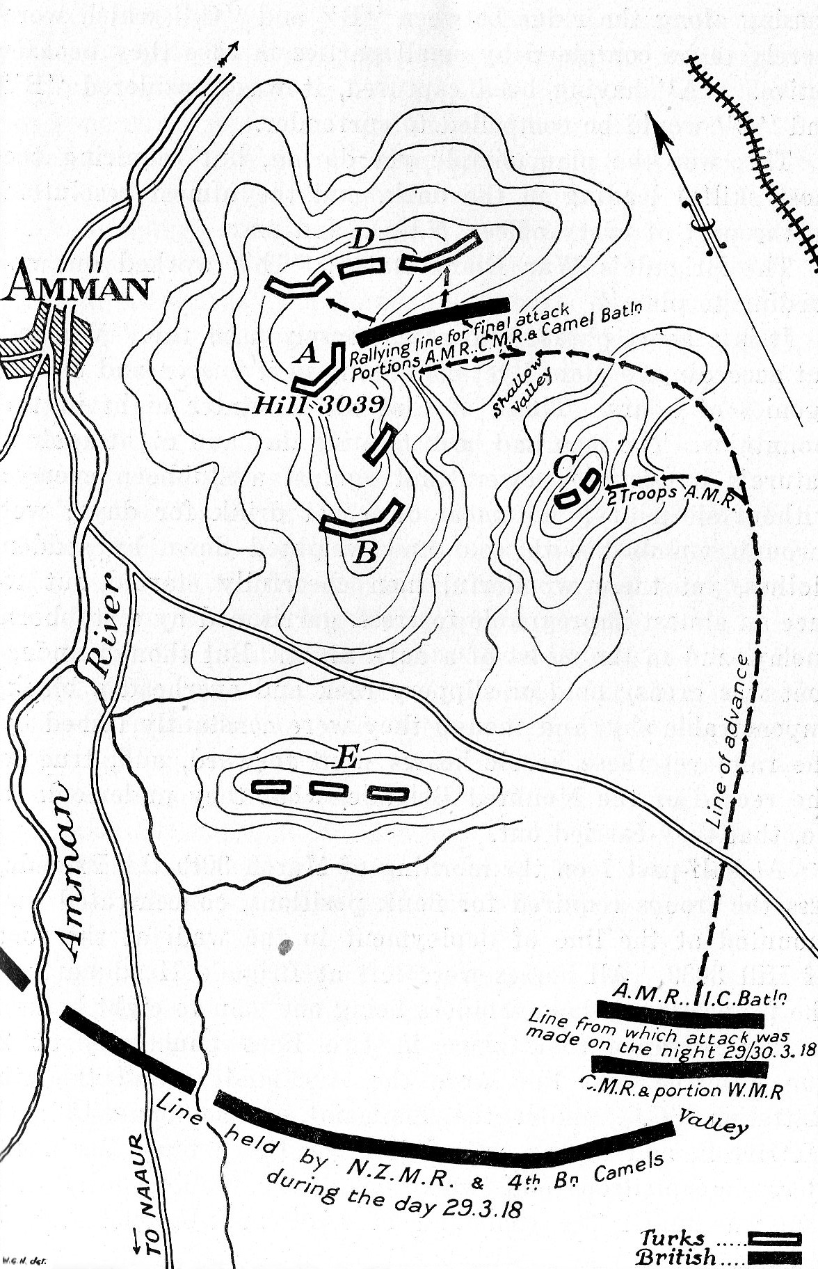 Map of Amman operations March 1918.